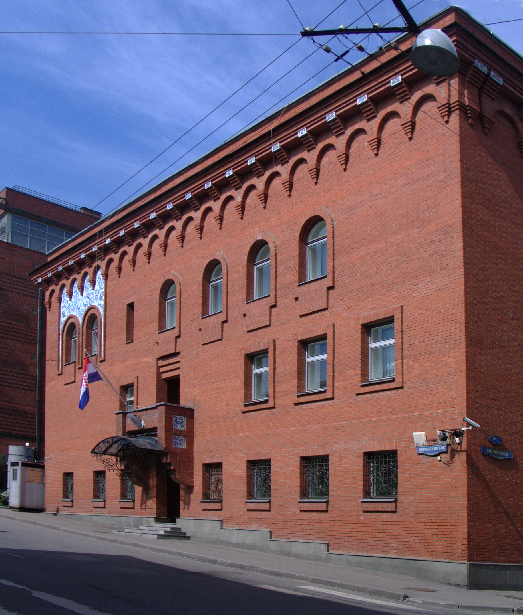 Building of the Embassy of Croatia in Moscow (Korobeynikov side-street 16/10).